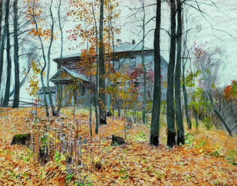 I. Levitan. "Autumn. Manor".